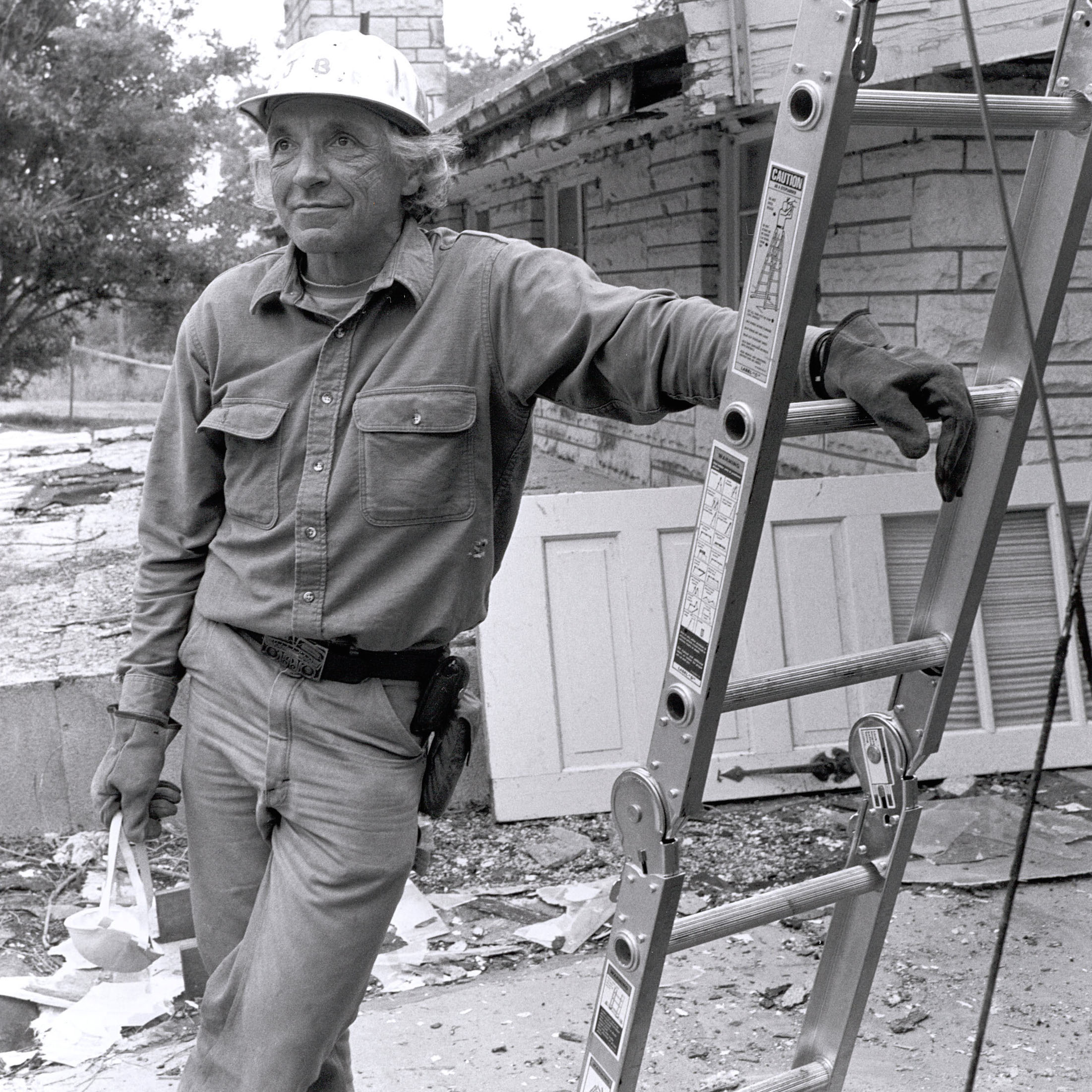 Jay Baldwin was acting team leader during the step by step dismantling of the Dymaxion Dwelling Machine near Wichita ,Kansas.